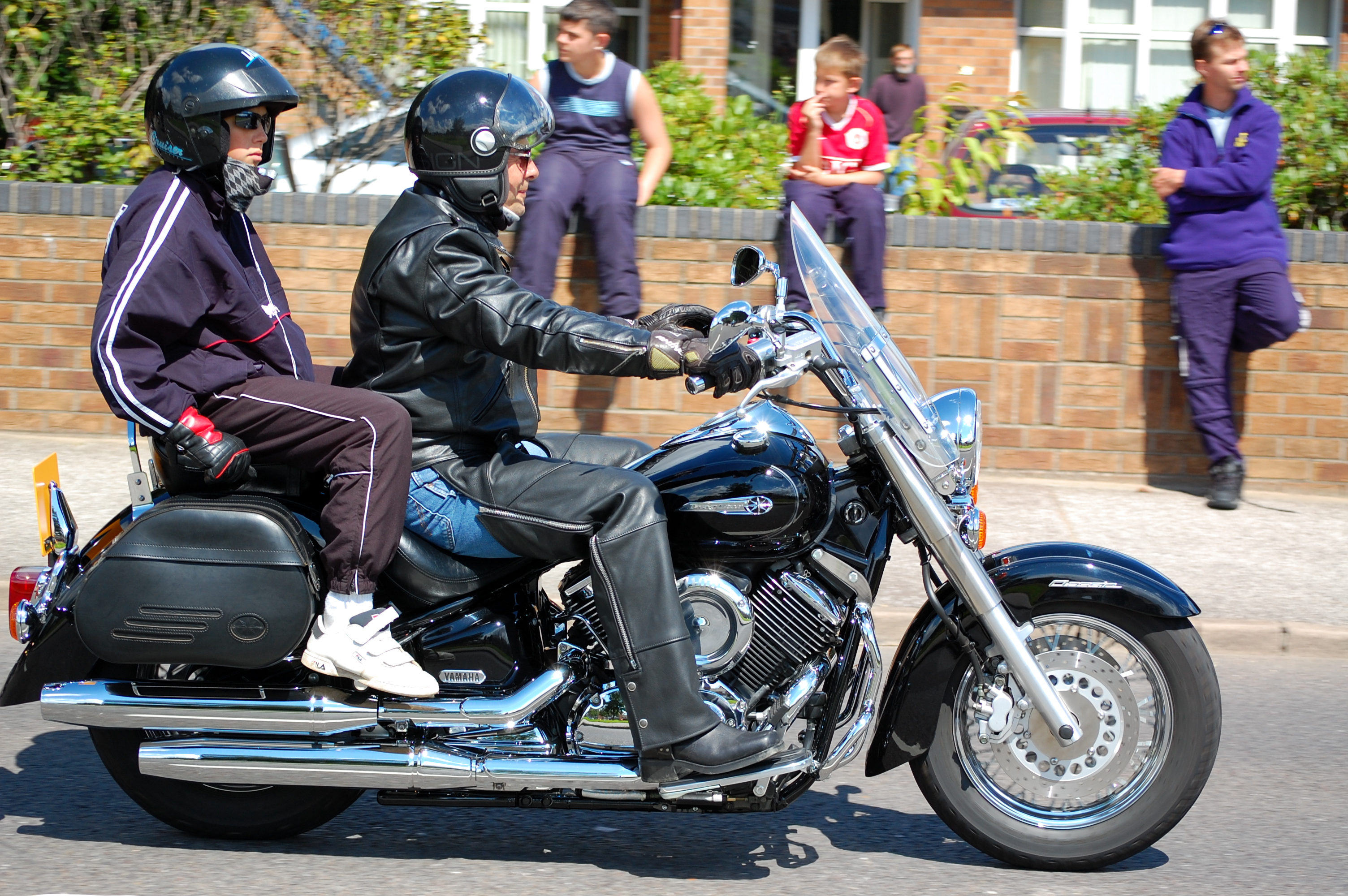 Eastern Lights Motorcycle Parade @ Lowestoft, Suffolk Yamaha Dragstar Classic